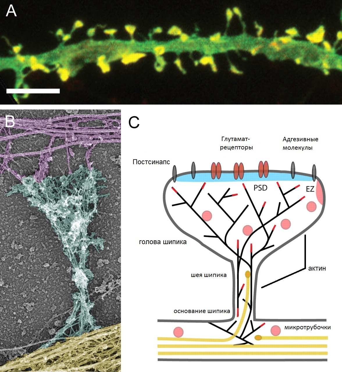 Cytoskeletal organization of dendritic spines. (A) Dendritic spine morphology (green) and localization of F-actin (red) in cultured hippocampal neurons. Merged red and green are shown in yellow. Bar, 5 µm. (B) Actin and microtubule cytoskeleton organization in a mature dendritic spine from cultured hippocampal neurons visualized by platinum replica electron microscopy (EM). Axonal cytoskeleton, purple; dendritic shaft, yellow; dendritic spine, cyan. The spine head typically contains a dense network of short cross-linked branched actin filaments, whereas the spine neck contains loosely arranged longitudinal actin filaments, both branched and linear. The base of the spine also contains branched filaments, which frequently reside directly on the microtubule network in the dendritic shaft. (C) Schematic diagram of a mature mushroom-shaped spine showing the postsynaptic membrane containing the postsynaptic density (PSD; blue), adhesion molecules (gray) and glutamate receptors (reddish brown), the actin (black lines) and microtubule (yellow) cytoskeleton, and organelles. The endocytic zone (EZ) is located lateral of the PSD in extrasynaptic regions of the spine and recycling endosomes (pink) are found in the shaft and spines. Dendritic spines exhibit a continuous network of both straight and branched actin filaments (black lines). The actin network is spread in the spine base, gets constricted in the neck, undergoes extensive branching at the neck–head junction, and stays highly branched in the spine head. The actin-polymerizing barbed ends are indicated as red lines. Stable microtubule arrays are predominantly present in the dendritic shaft. A small fraction of the microtubules in mature dendrites are dynamic and depart from the dendritic shaft, curve, and transiently enter dendritic spines. The microtubule plus-ends are symbolized as yellow ovals.